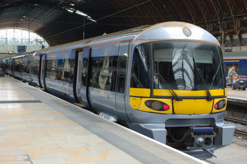 Heathrow Express 332002 at Paddington station